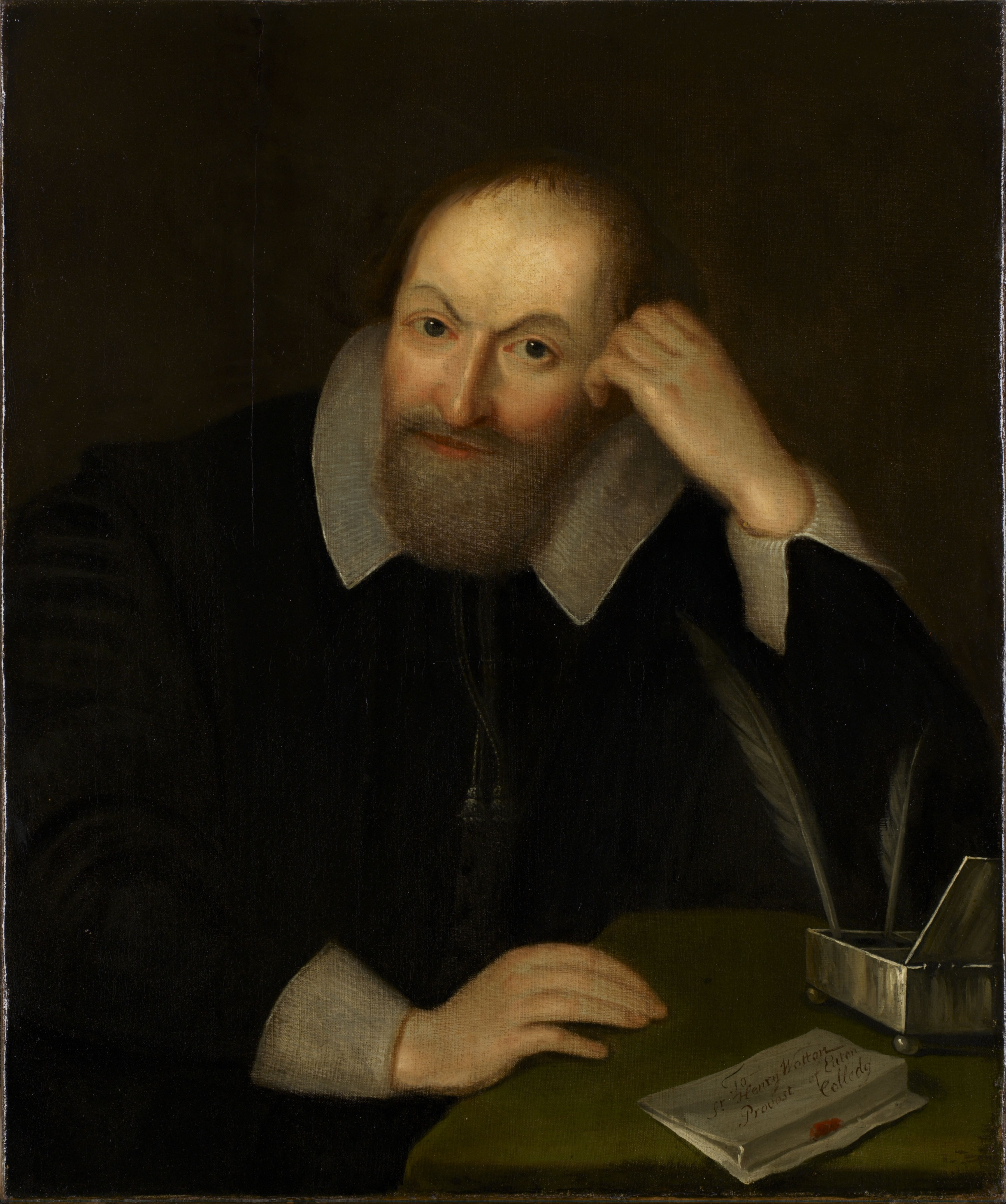 Portrait of Sir Henry Wotton (1568-1639)